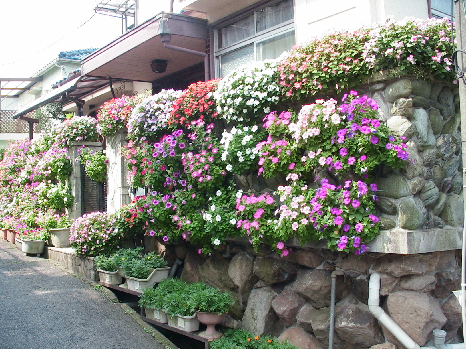 YASUKO TAIRA